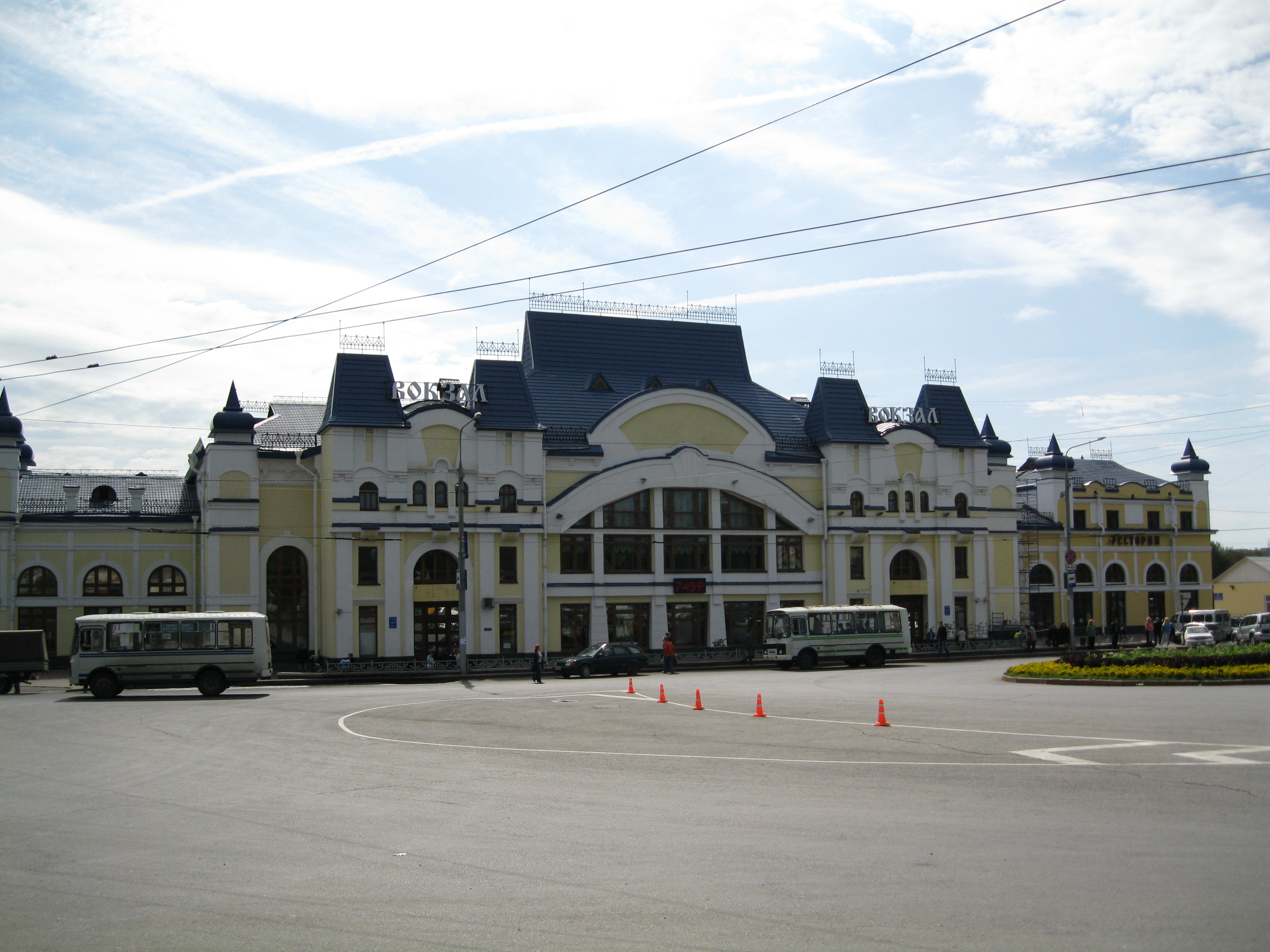 Tomsk I railway station, Russia